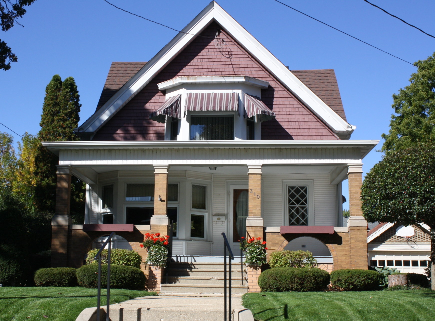 310 Emmitt in Watertown, Wisconsin, part of the South Washington Historic District which is listed on the National Register of Historic Places.